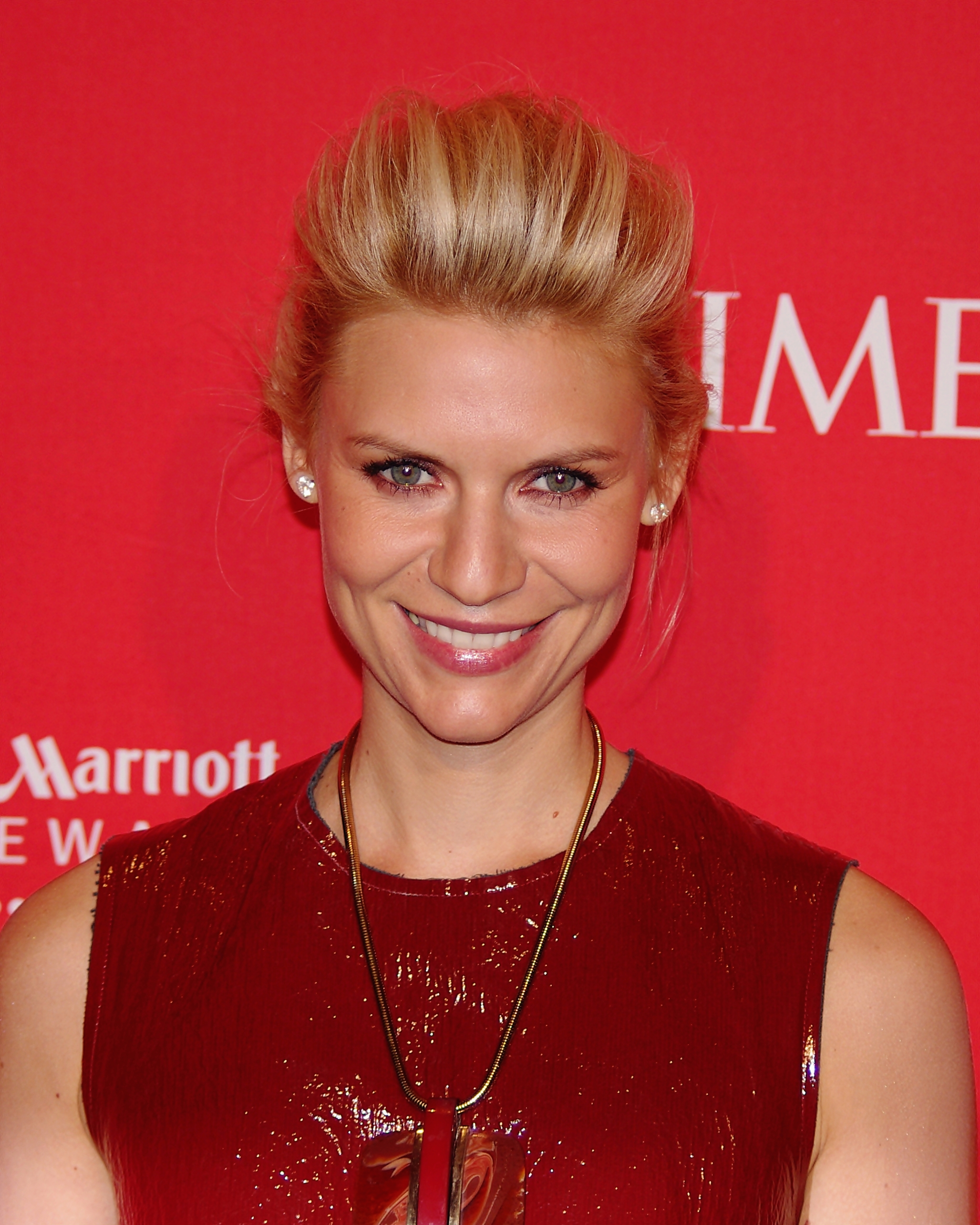 Claire Danes at the 2012 Time 100 gala.